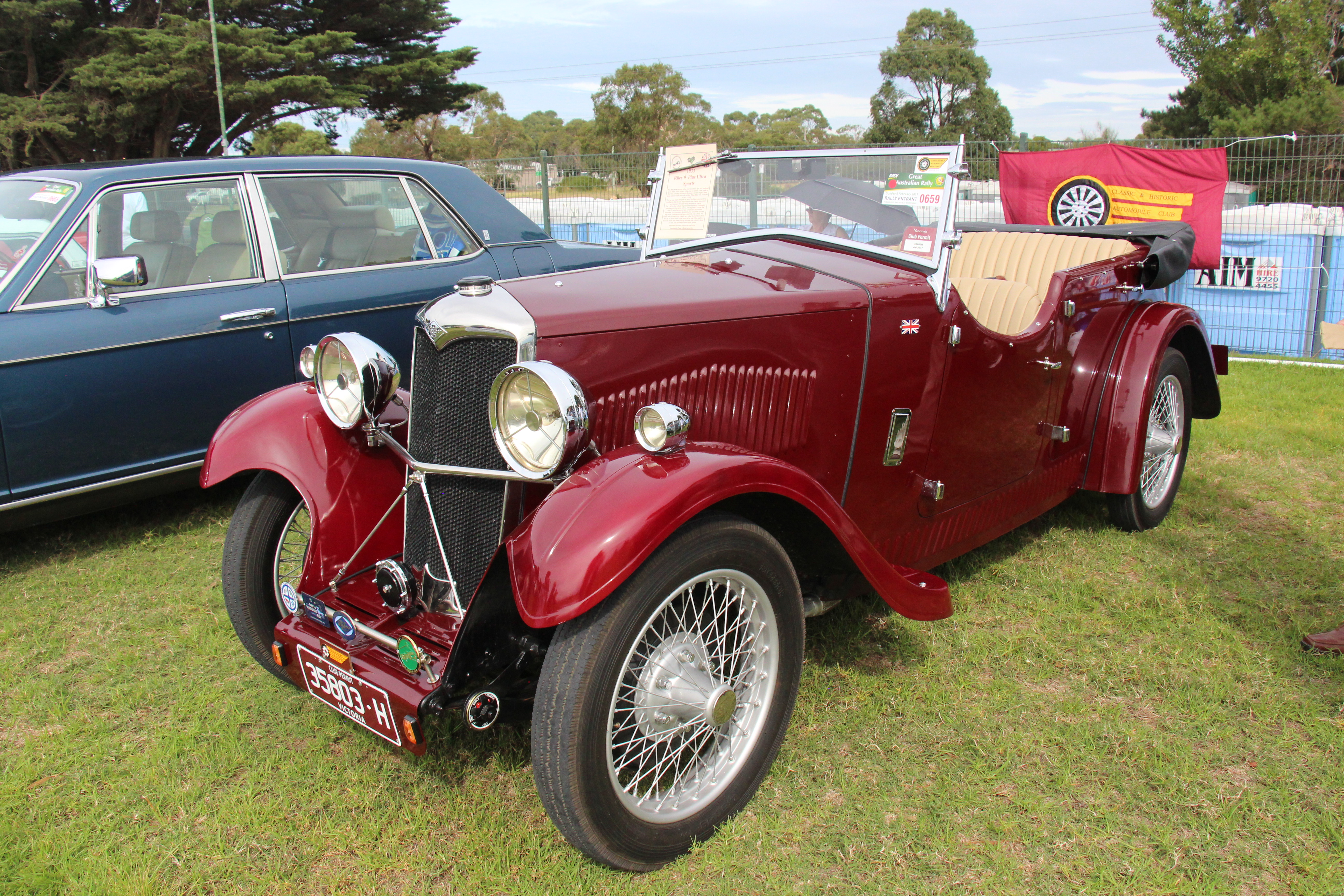 The Riley Nine was built with many different bodies, and went through many changes from 1926-38. Originally only available in 1926 as a fabric body saloon or a 4 seat Tourer. The Plus Ultra Sports was produced in 1932 and 1933, designed by the two Riley brothers, Stanley was responsible for the chassis, suspension and body and Percy designed the 1087cc four cyl engine, it had hemispherical combustion chambers with the valves inclined at 45 degrees in a cross flow head.